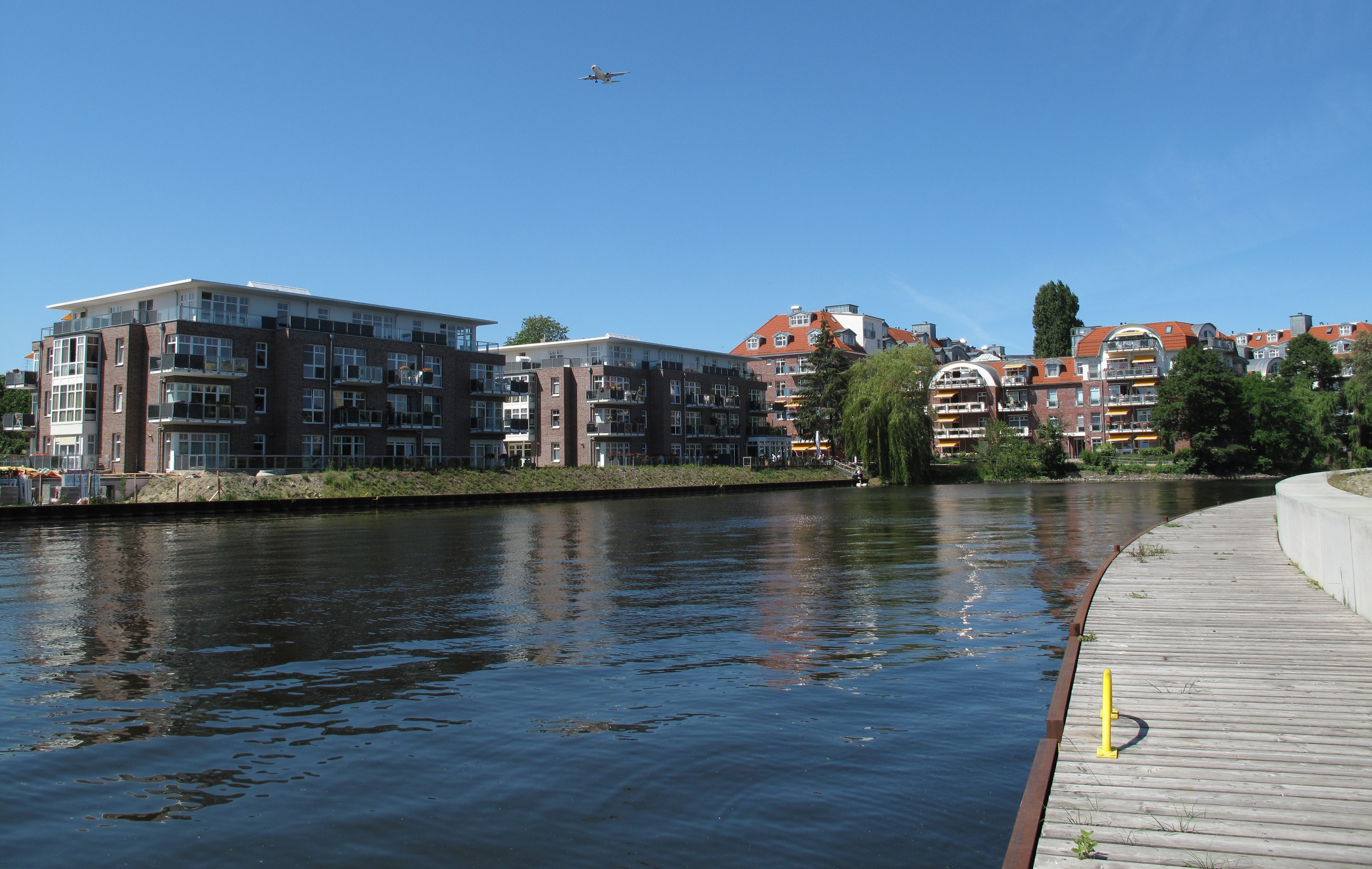 The Nordhafen Spandau (north harbour Spandau) is a branch canal of the river Havel and a former inland harbour in Berlin, Borough Spandau, locality Hakenfelde.